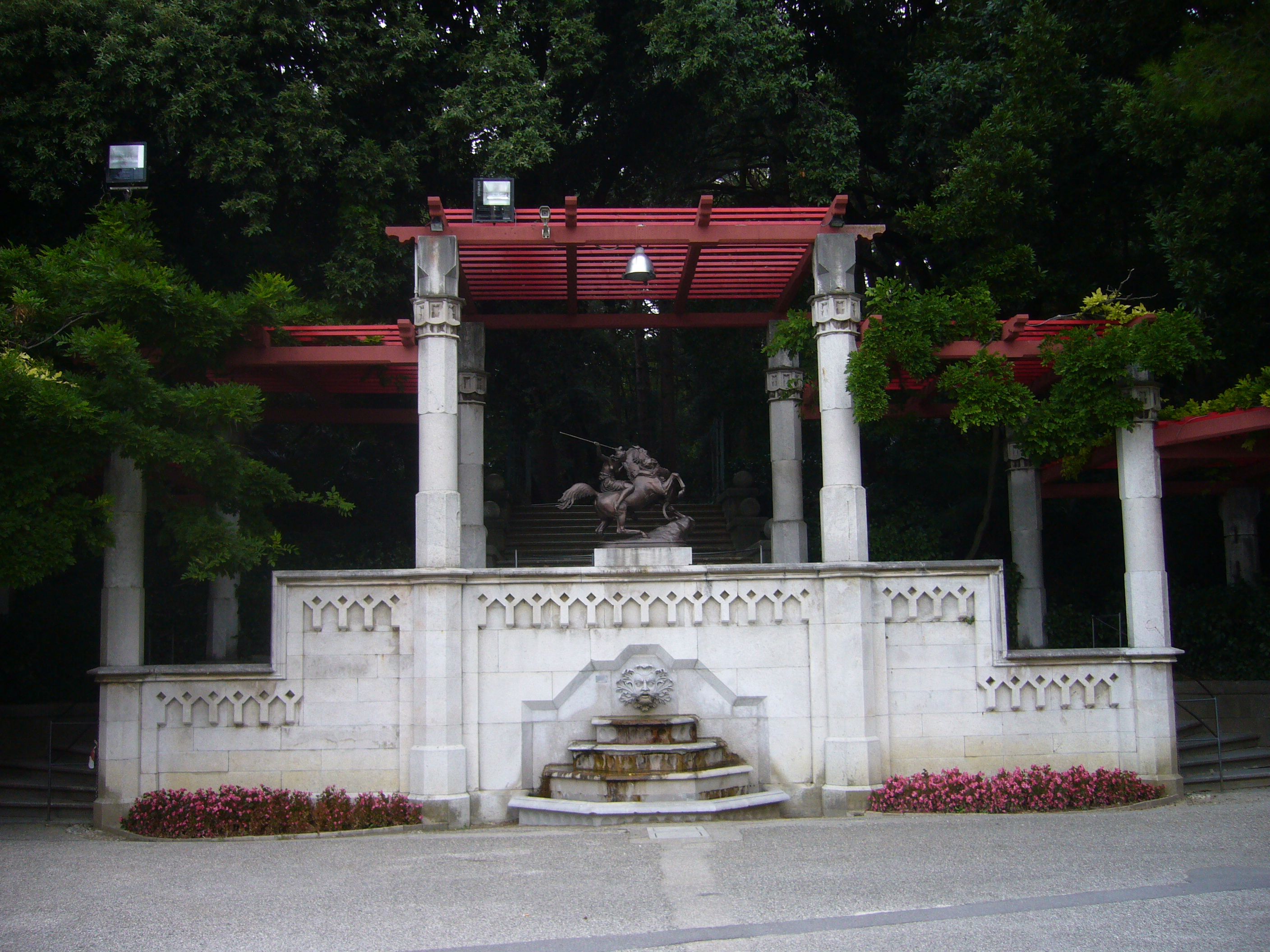 Miramare, Italy